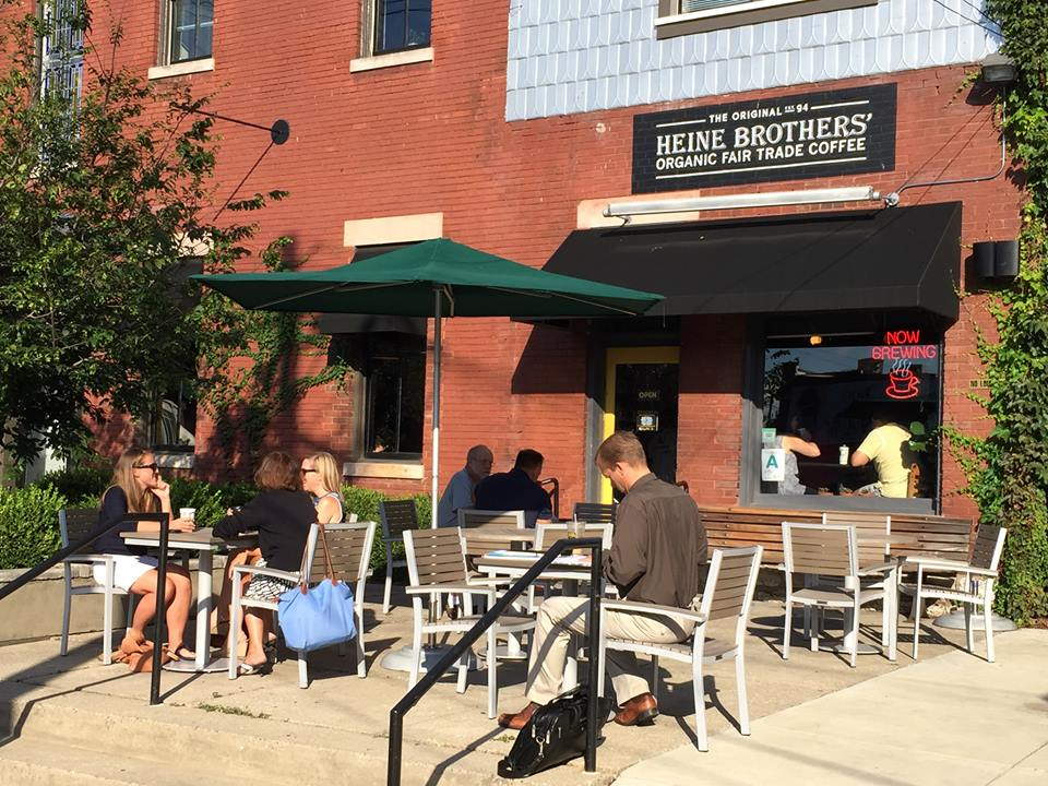 Heine Brother' location in The Highlands